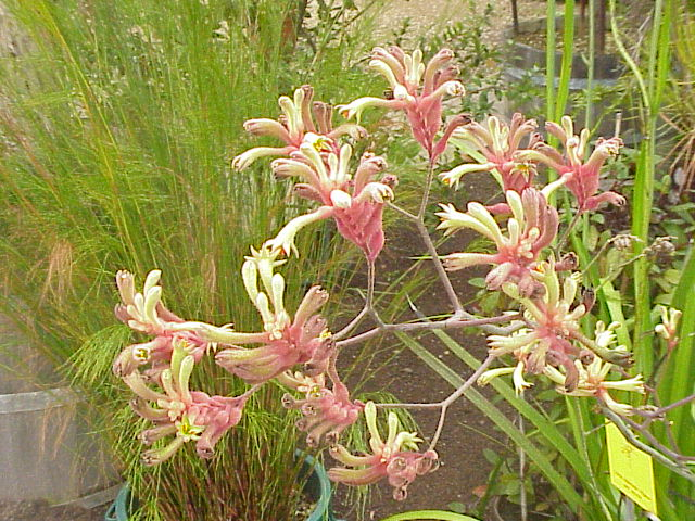 Species: Anigozanthos flavidus Family: Haemodoraceae Image No. 4